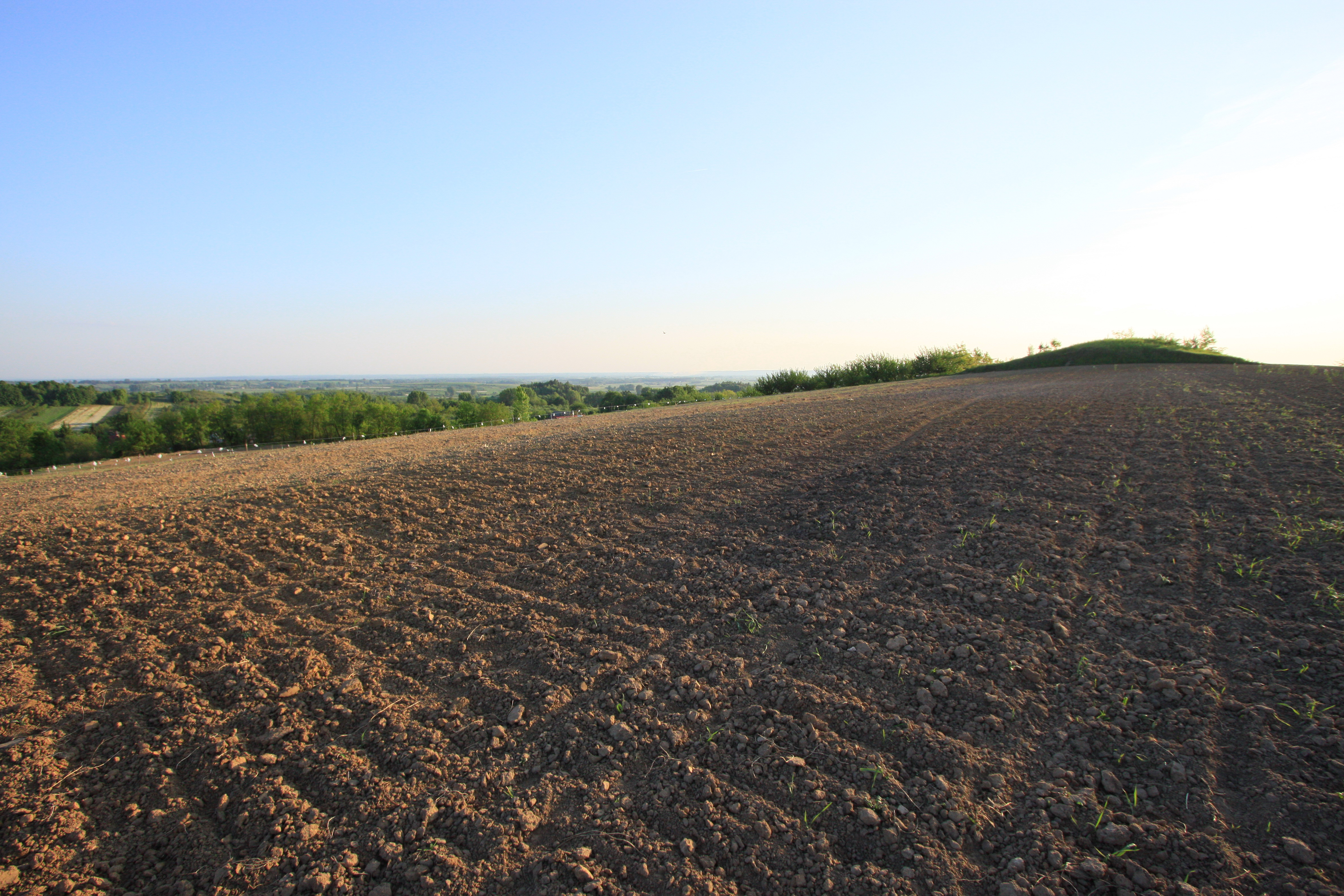 Żerniki Górne - ancient barrow.